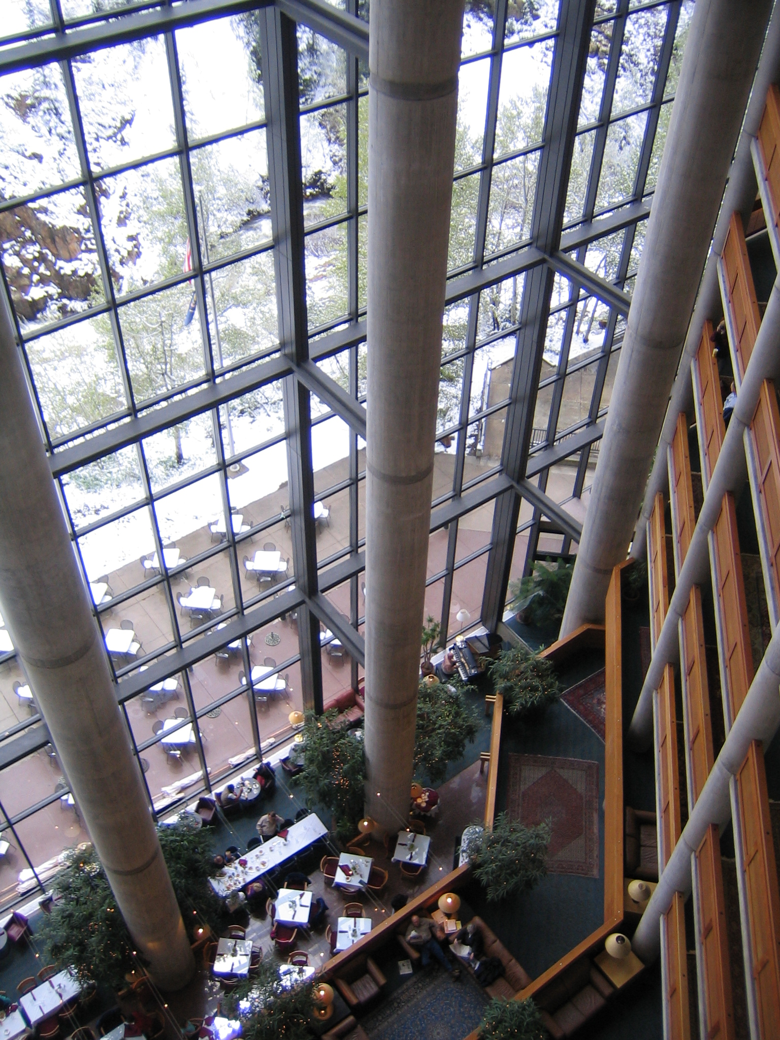 own work